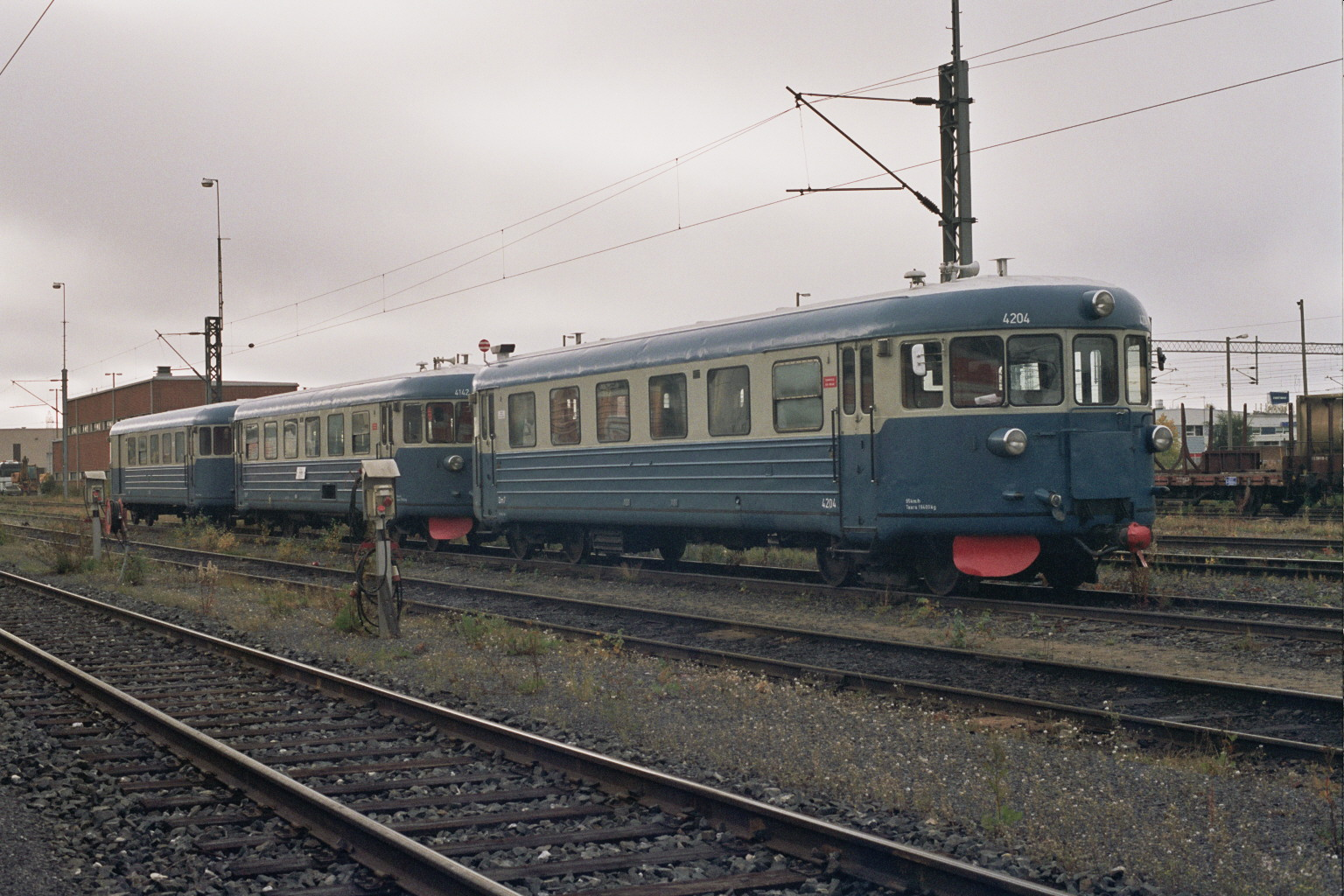 Two old railbuses (VR class Dm7; numbers 4204, 4142) followed by what is probably an EFiab wagon in the VR railyard in Oulu, Finland.